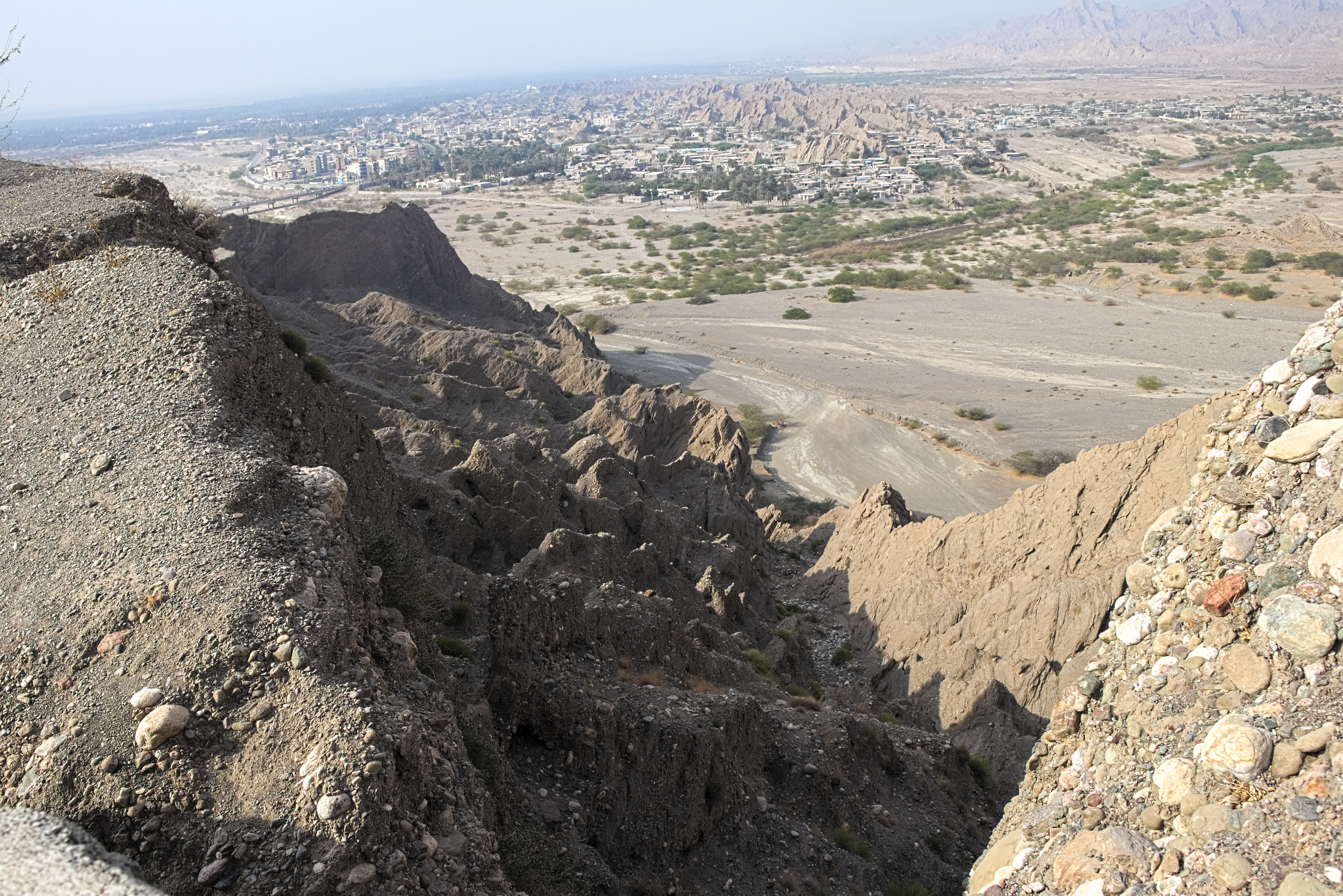 Minab city and Minab river bed in Hormozgan province, southern Iran.